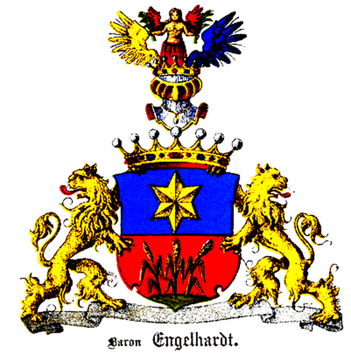 Coat of arms of Engelhardt family